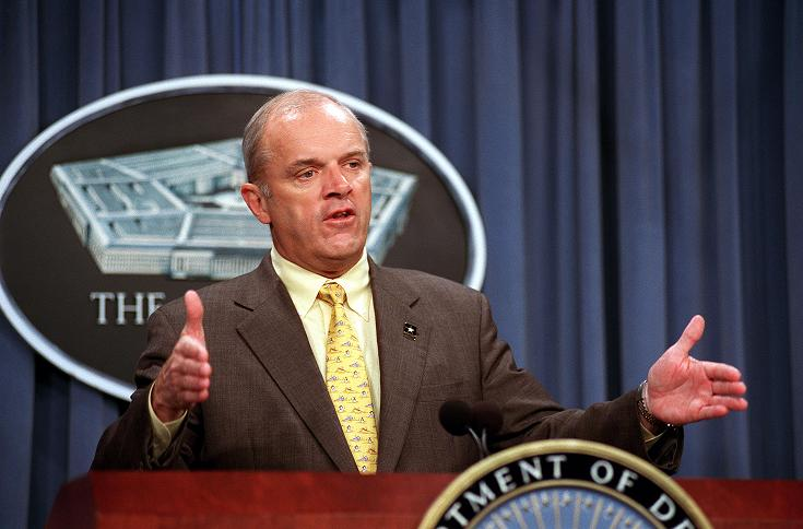 Secretary of the Army Thomas E. White holds a press briefing at the Pentagon on Oct. 26, 2001, to discuss homeland security.